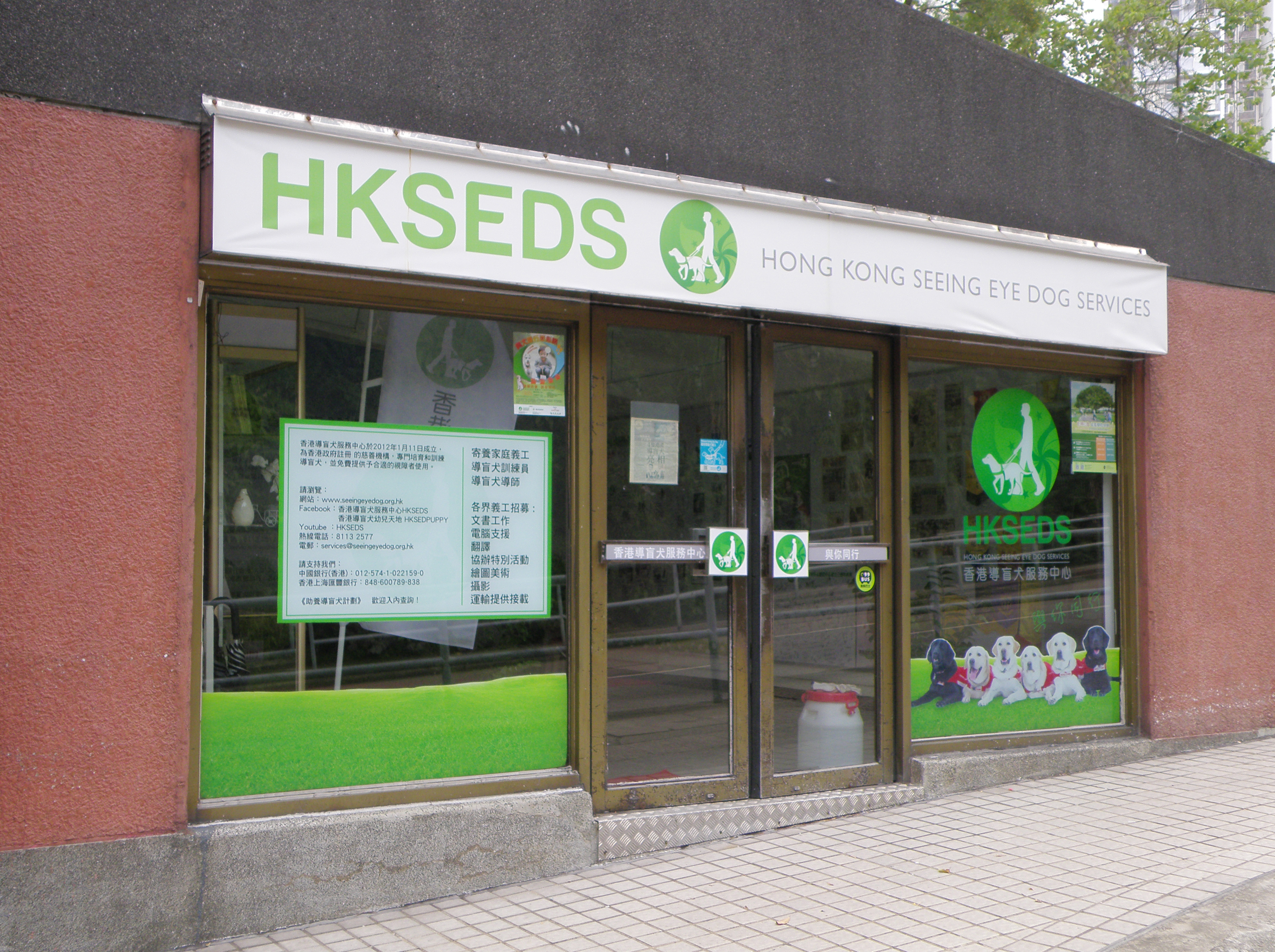 Seeing Eye Dog Services in Hong Kong.